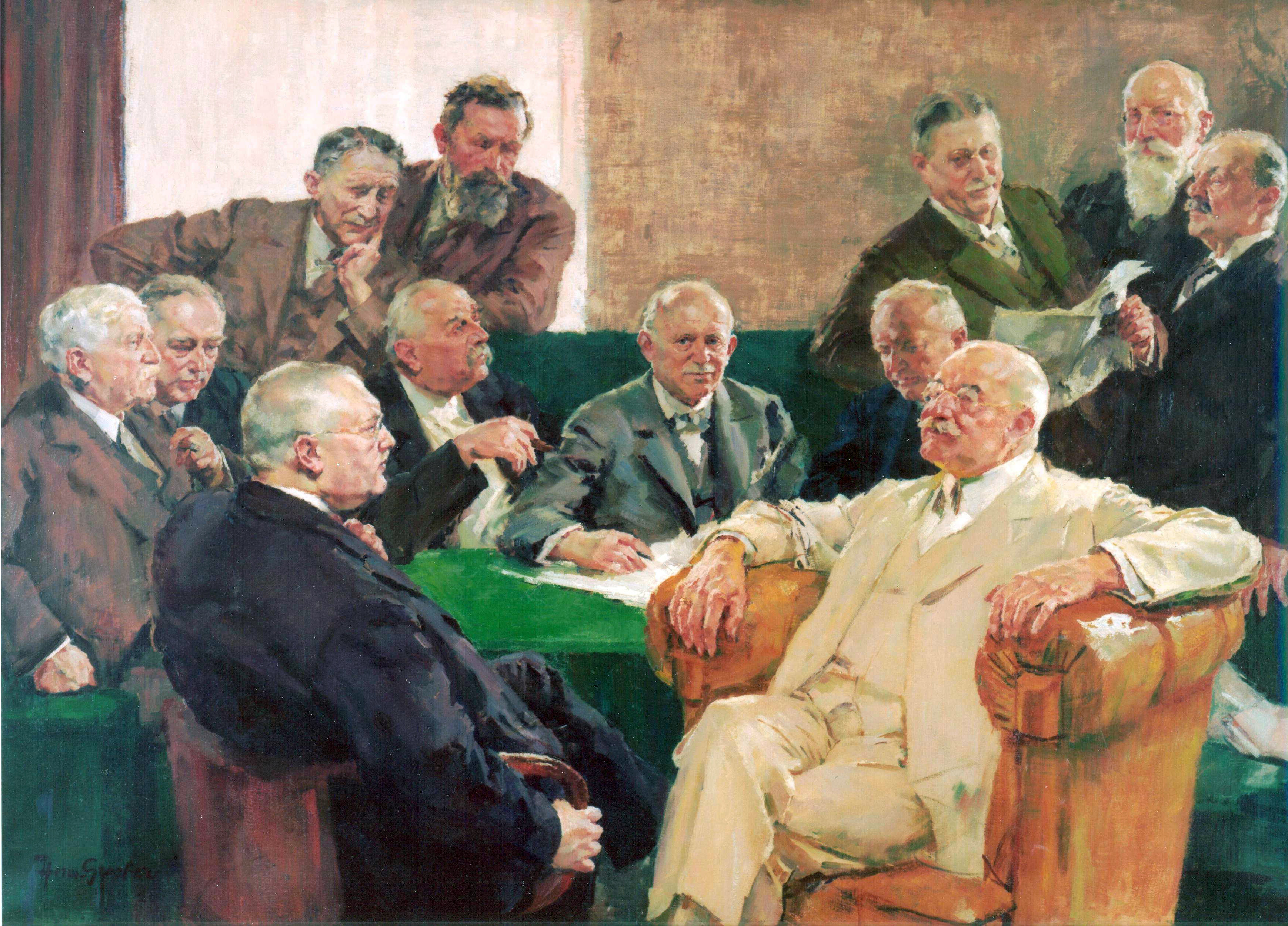 The Board (Aufsichtssrat) of IG Farben, Germany. In front (left) IG Farben Carl Bosch.